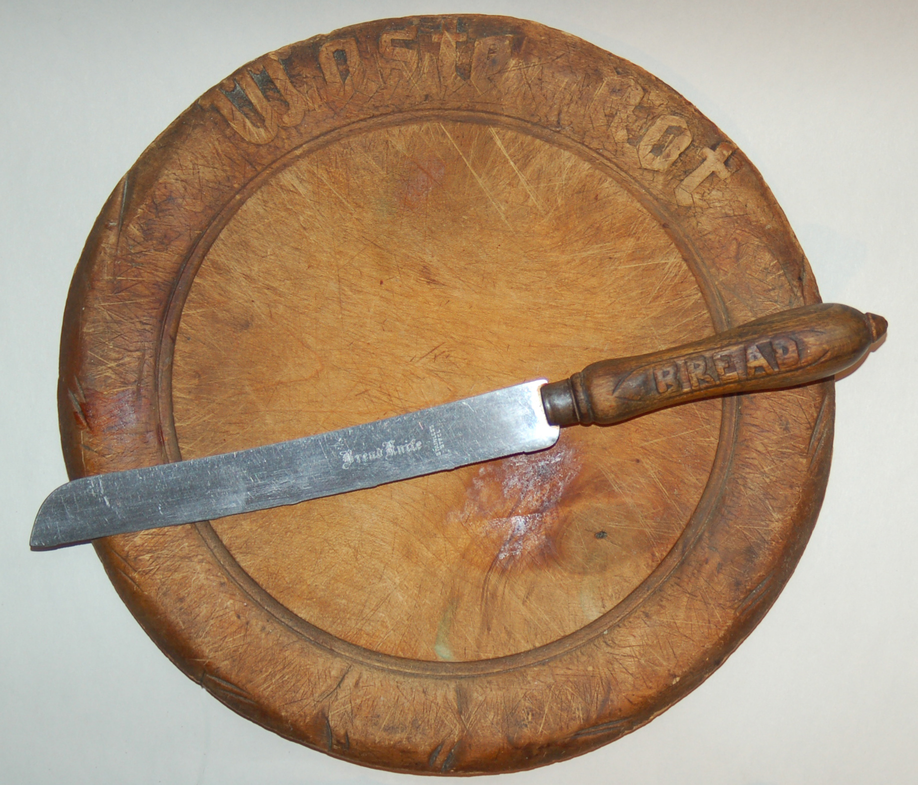 Late 19th century cutting board of maple bearing the admonition "Waste Not" [Want Not] with a bread knife of the same period.